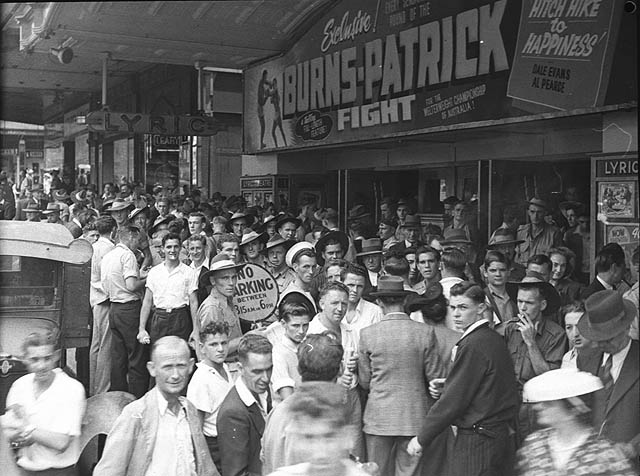 Format: Film photonegative (copied from original nitrate photonegative) ; 35 mm Notes: Before television, continuous newsreel film theatres were a necessary means of seeing current events. When Tommy Burns fought Vic Patrick at the Sydney stadium for the Australian welterweight crown, he was knocked out in the ninth round. The crowd was 13,000, with another 5,000 across the road listening to the radio broadcast. The newsreel of the event shown at the Lyric Theatre was even more popular with huge crowds in George Street for the six daily sessions. Find more photographs of early Sydney on Discover Collections - Sydney Exposed: From the collections of the Mitchell Library, State Library of New South Wales Information about photographic collections of the State Library of New South Wales: Persistent url